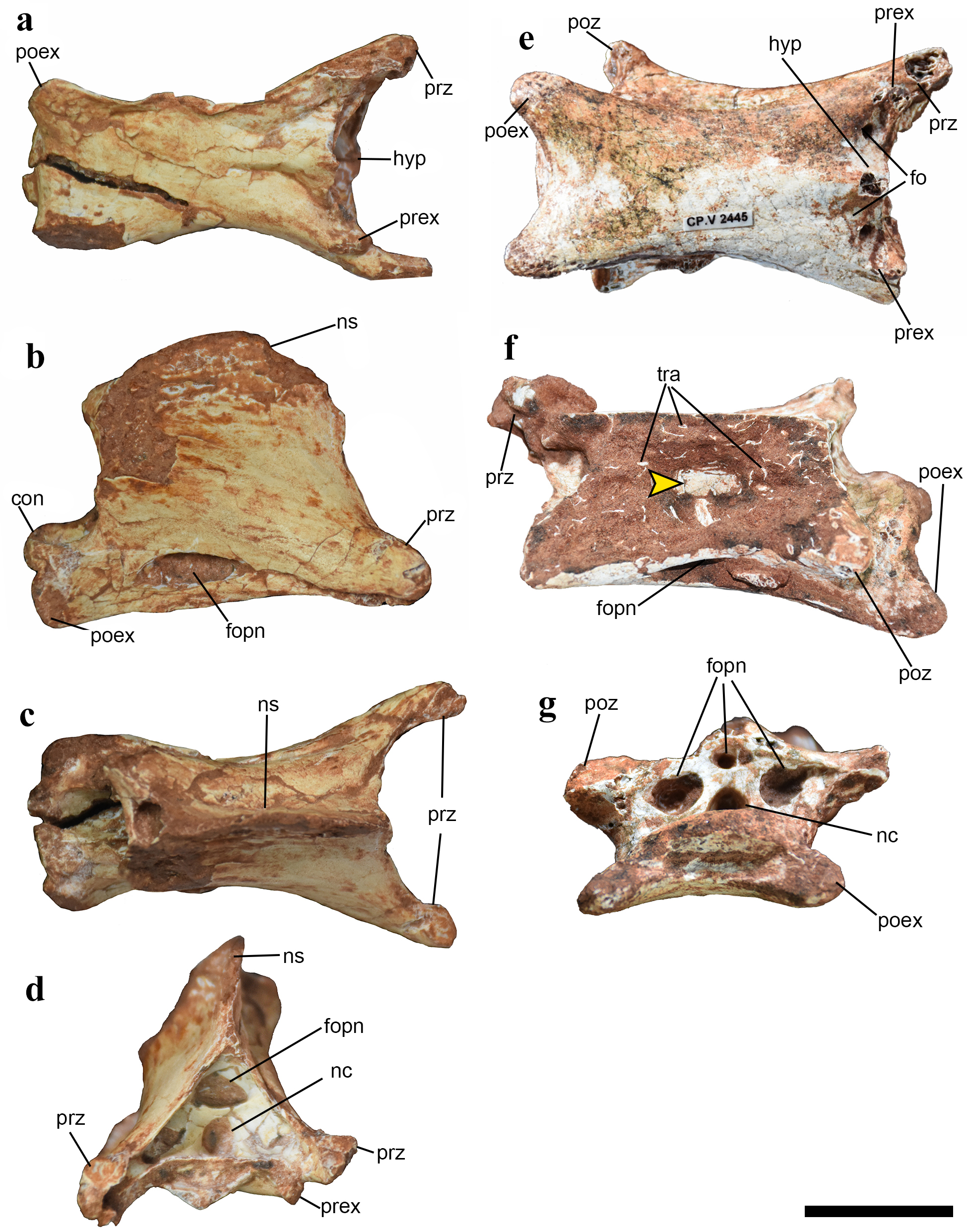 Figure 5' - Cervical vertebrae of Keresdrakon vilsoni gen. et sp. nov., CP.V 6495 in (a) ventral, (b) right lateral, (c) dorsal and (d) anterior views; CP.V 2445 in (e) ventral, (f) dorsolateral, (g) posterior views. Note the ossified tube that encloses the neural canal in (f) marked by an arrow. Abbreviations: con - condyle, fo - foramen, fopn - foramen pneumaticum, hyp - hypapophysis, nc - neural canal, ns - neural spine, poex - postexapophysis, poz - postzygapophysis, prex - preexapophysis, prz - prezygapophysis, tra - trabeculae. Scale bar = 20mm.